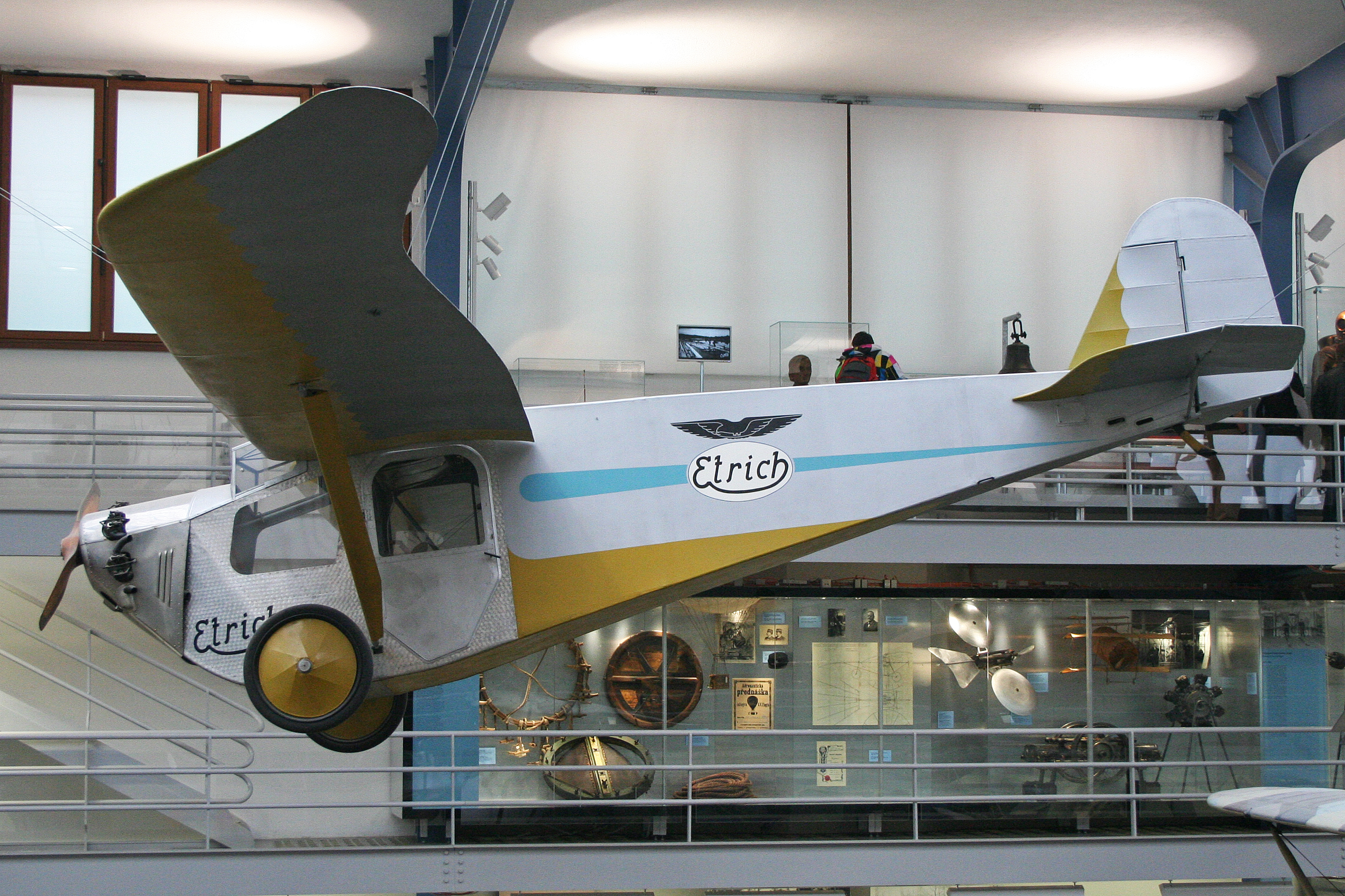 Etrich Sport-Taube built in 1928. National Technical Museum. Prague, Czech Republic. 07-10-2012